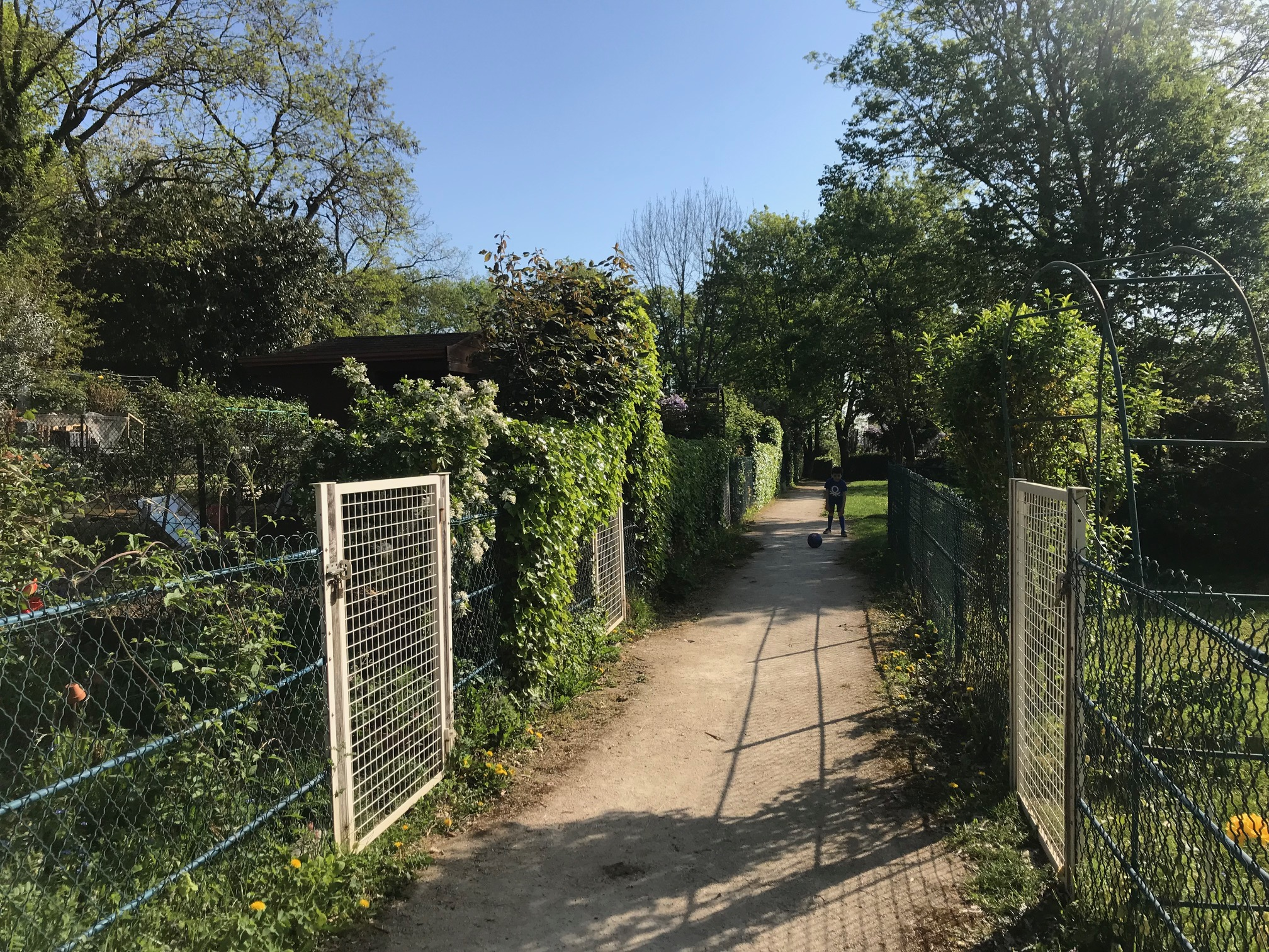 de parts et d'autres de cette allée piétonne qui part elle-même de l'allée Lucien Herr aux escaliers, des jardins ouvriers. Cité-jardin de la Butte rouge à Châtenay-malabry